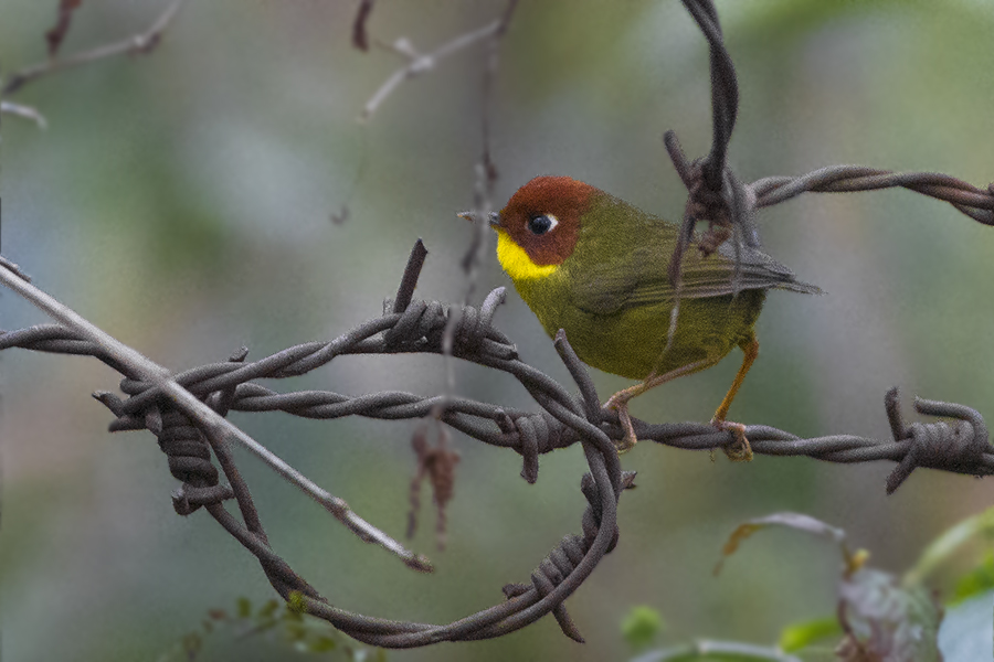 The species Chestnut-headed Tesia had been photographed from Khangchendzonga Biosphere Reserve during the birding tour of GoingWild in West Sikkim, India on 16.02.2016.